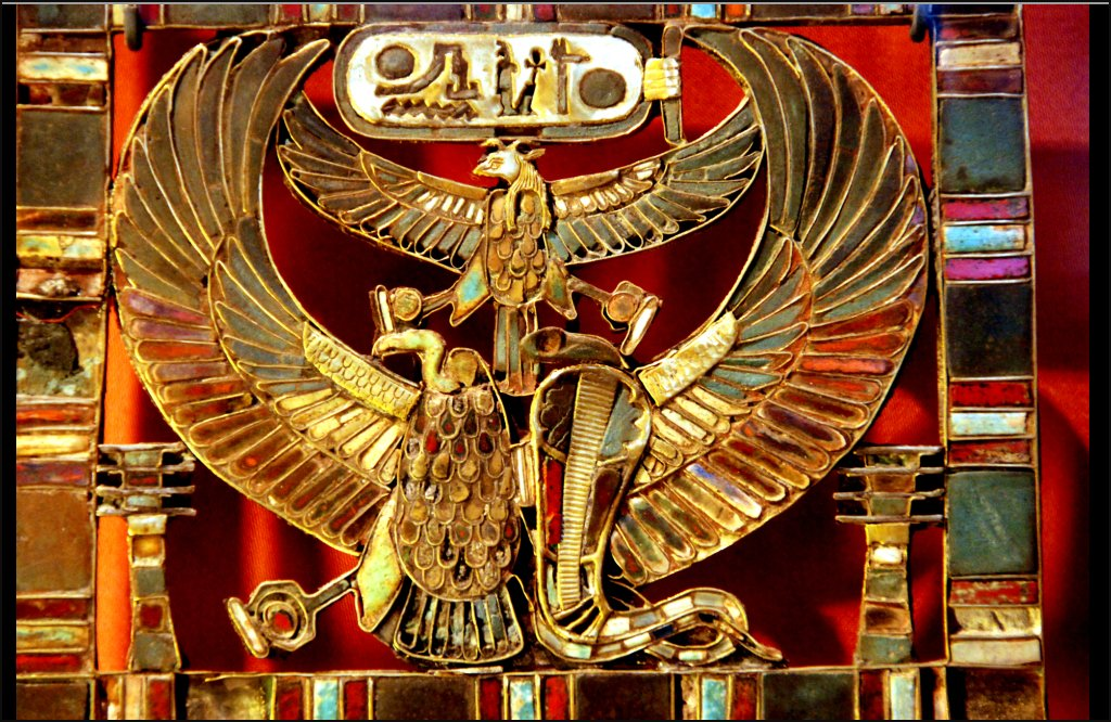 Pectoral plaque bearing the name of Ramesses II. From the burial once thought to be the tomb of Prince Khaemwaset, pharaoh Ramesses II's son, at the Serapeum in Memphis. Prince Khaemwaset held the office of Crown Prince of Egypt between Year 50 to Year 55 of Ramesses II.